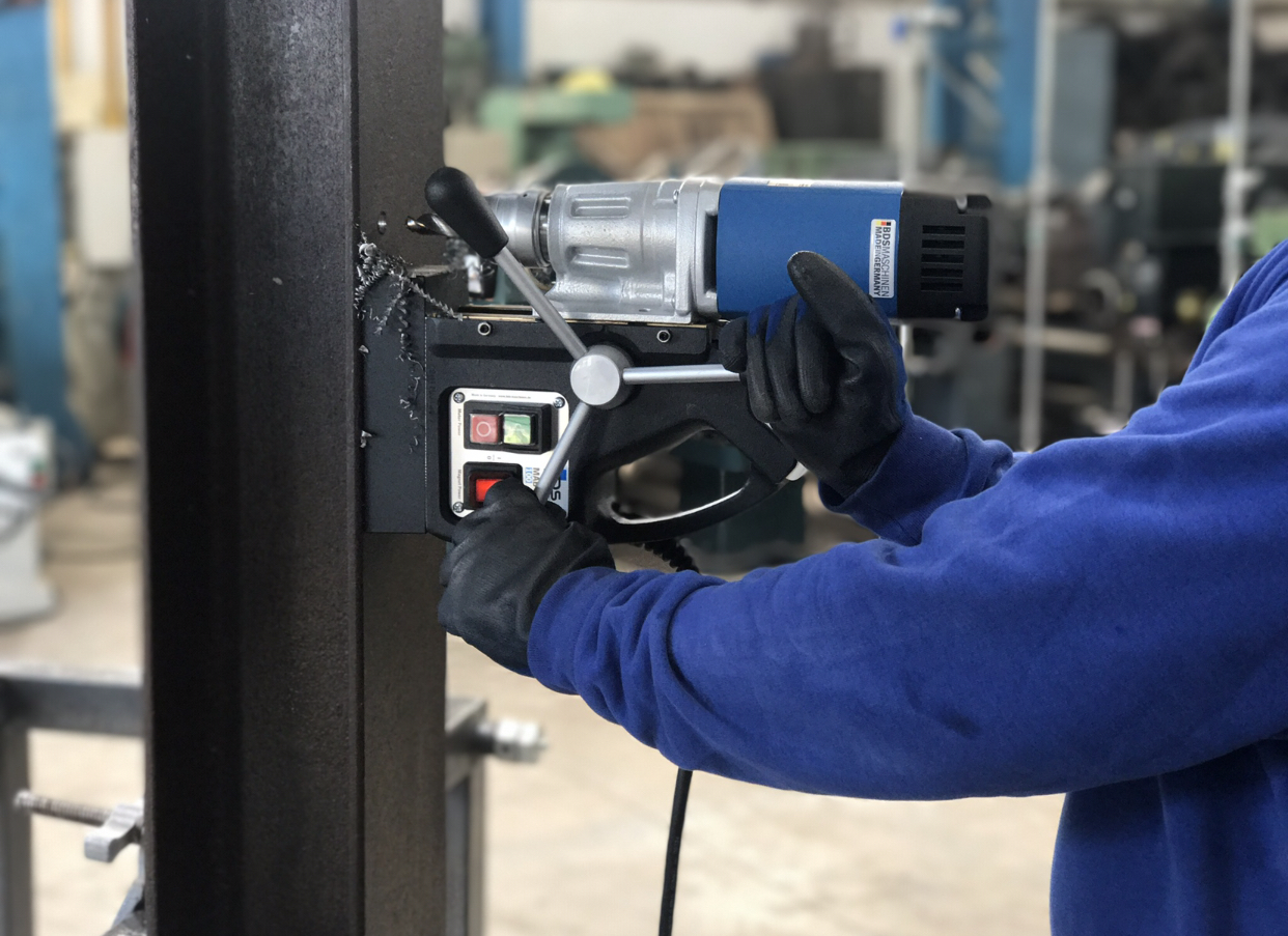 A Magnetic Drill From BDS Maschinen GmbH (Germany) Performing Drilling In Horizontal Situation.